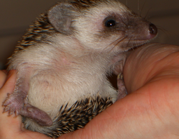 "Potato", Photographed by Alex Huck